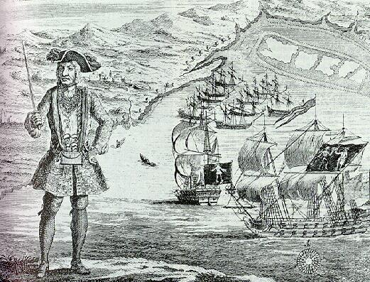 Bartholomew Roberts with his ship and captured merchant ships in the background. A copper engraving[1] from A History of the Pyrates by Captain Charles Johnson c. 1724